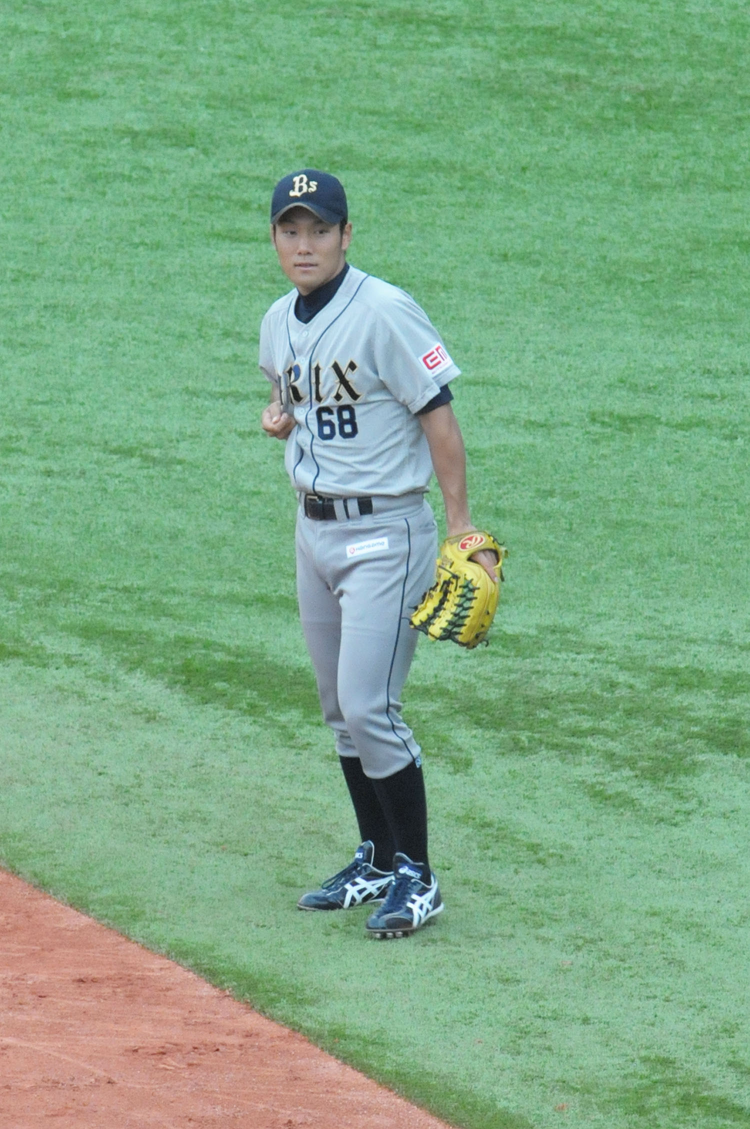 Masato Fukae, outfielder of the Orix Buffaloes, at Chiba Marine Stadium.